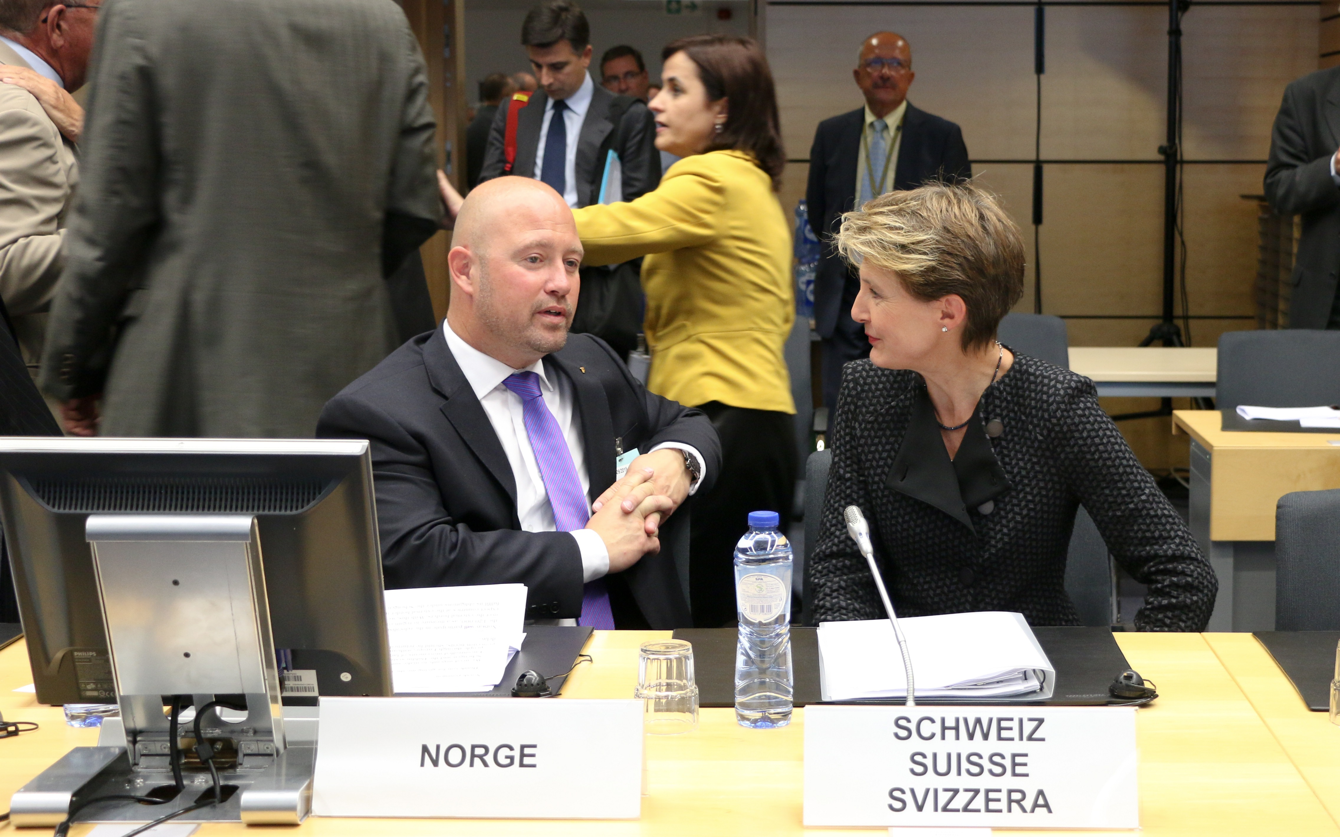 Norway's Minister of Justice Anders Anundsen with Simonetta Sommaruga.